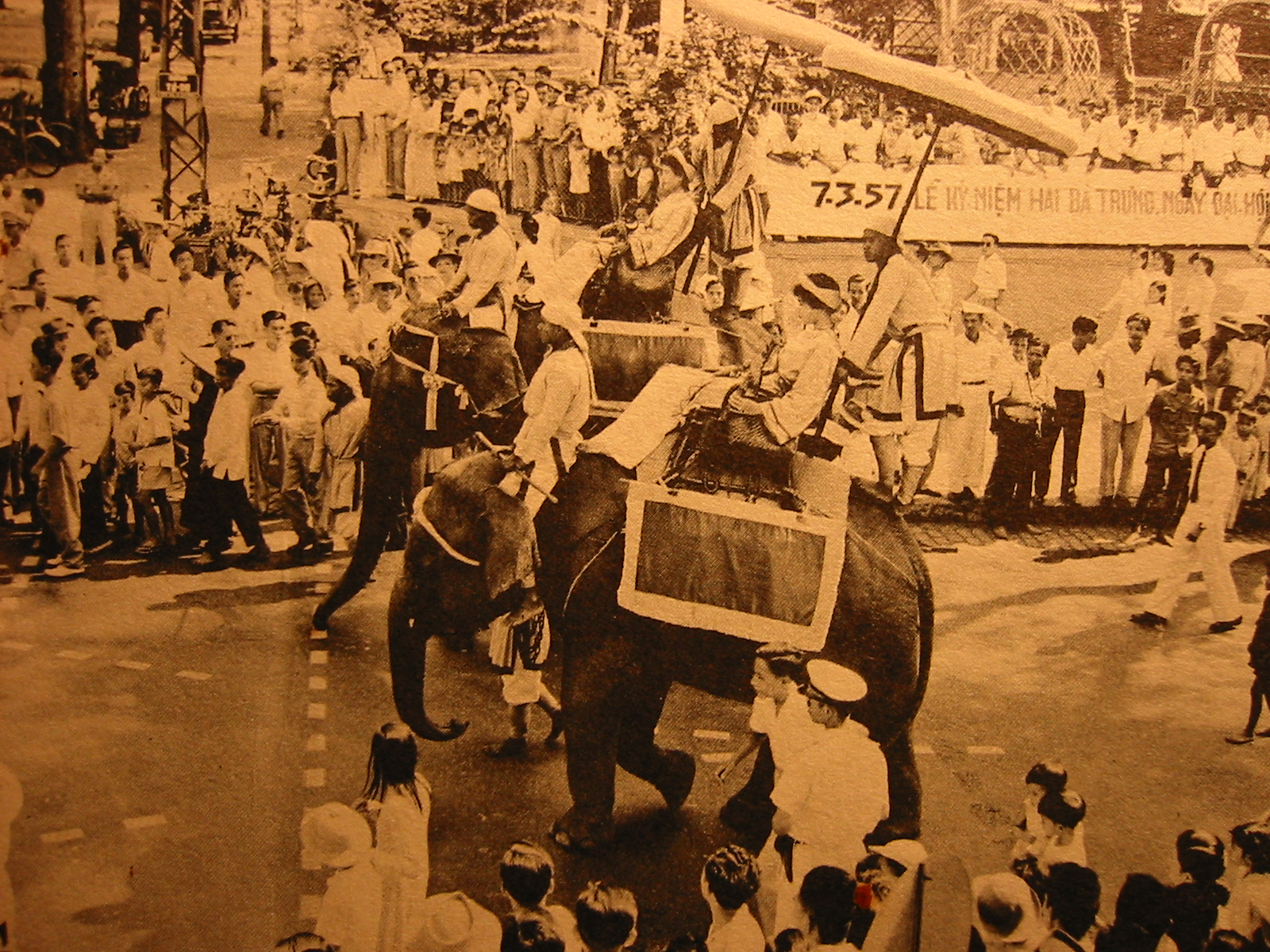 Procession of Elephants in the Hai Ba Trung Parade in Saigon